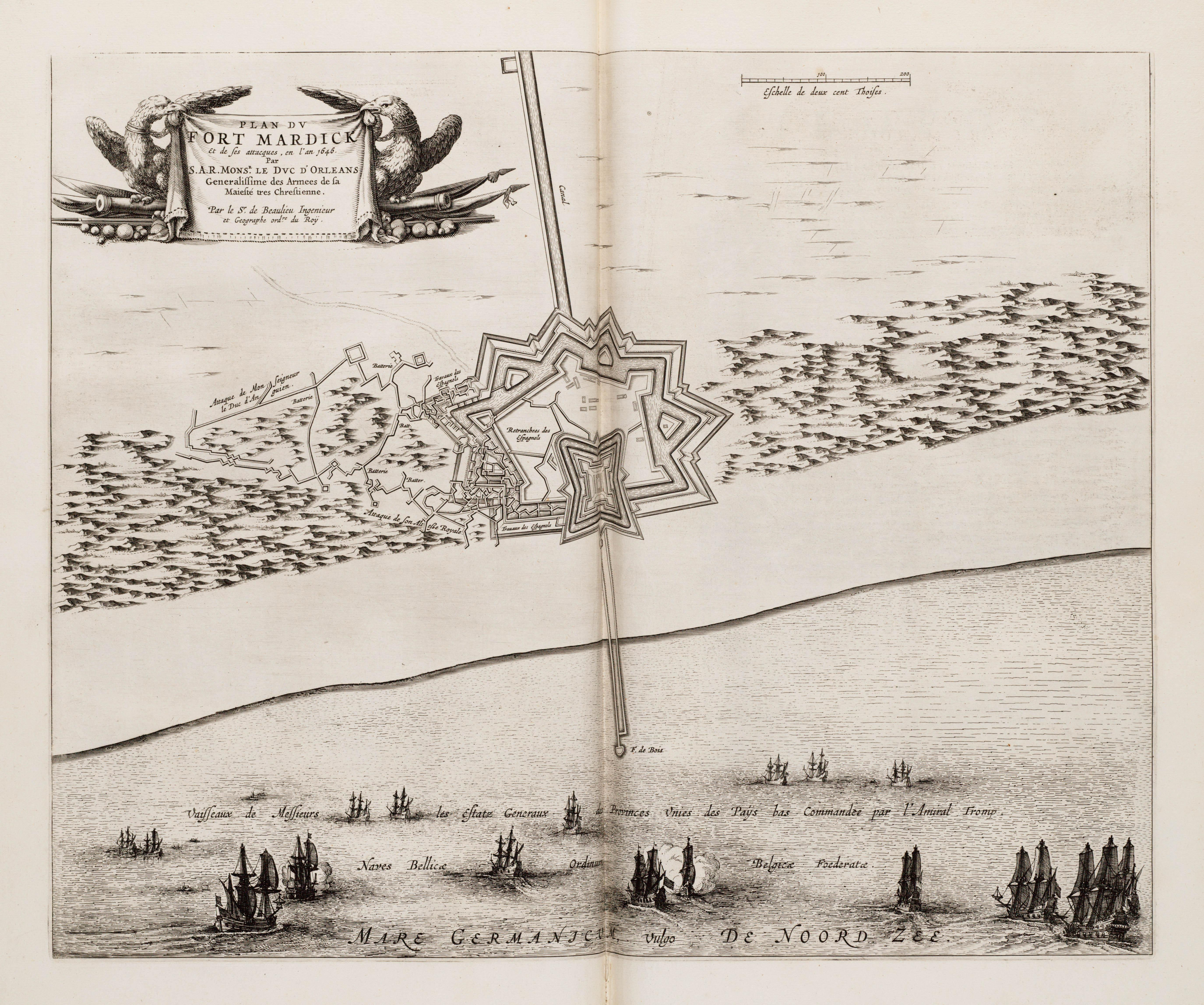 Map of Fort Mardijck, from the Toonneel der Steden. The attacks on the city of 1646 are depicted.